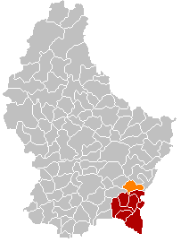 Own edit of Kanton RemichLocatie.png